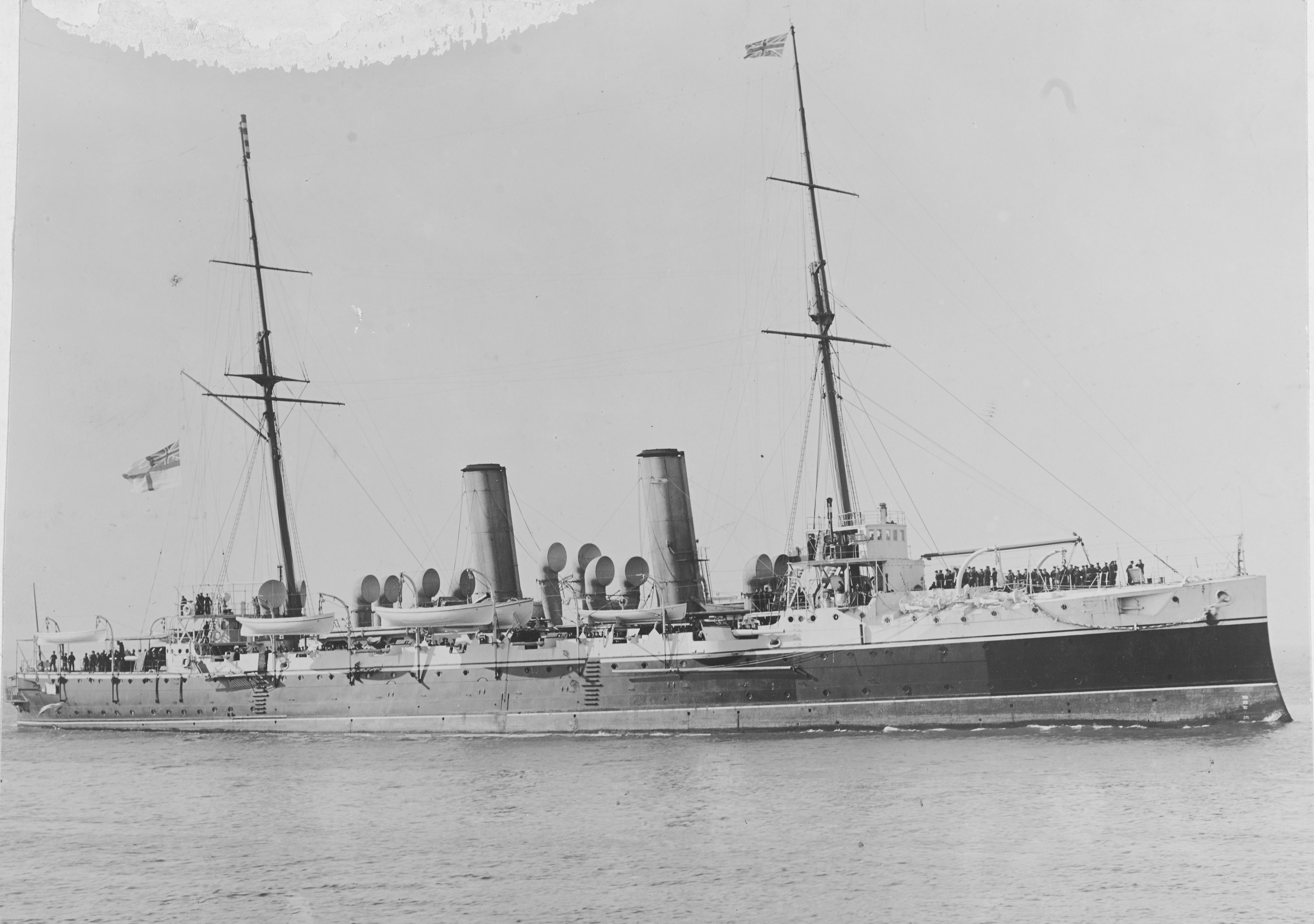 "British cruiser, launched in 1895". This version cropped and saved to jpg by uploader.